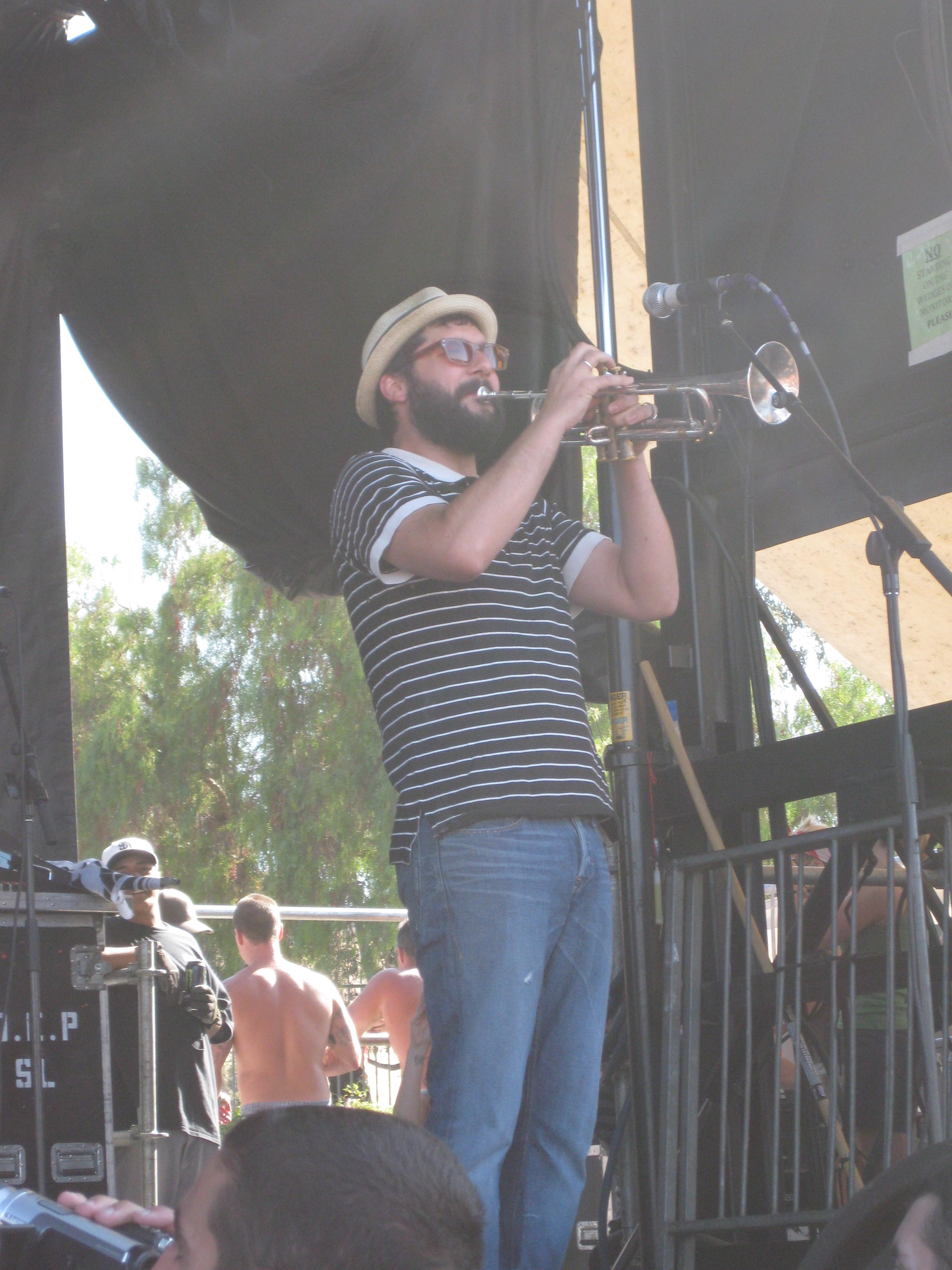 Scott Klopfenstein of Reel Big Fish performing on the Warped Tour at the Cricket Wireless Amphitheatre in Chula Vista, California on August 10, 2010.